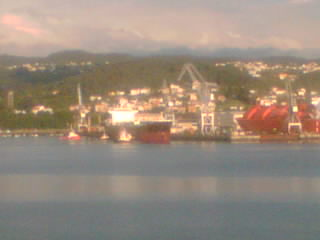 Navantia-Fene fron Ferrol sea sied at Caranza.